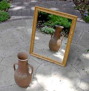 mirror, reflecting a vase